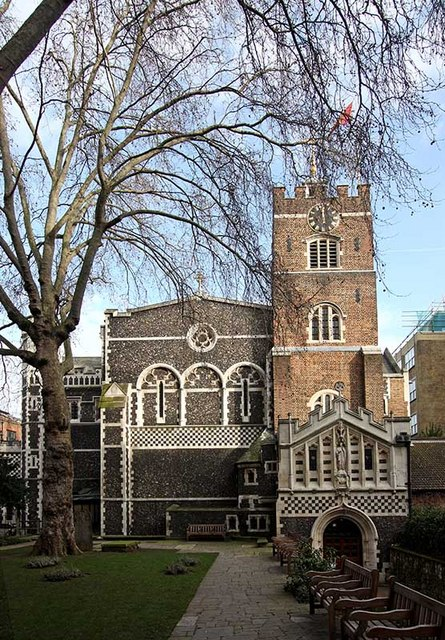 St Bartholomew the Great, West Smithfield, London EC1